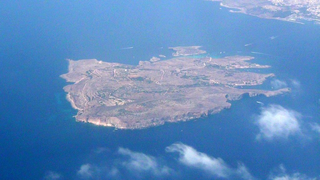 Bird's eye view of Kemmuna (Comino) island, Malta